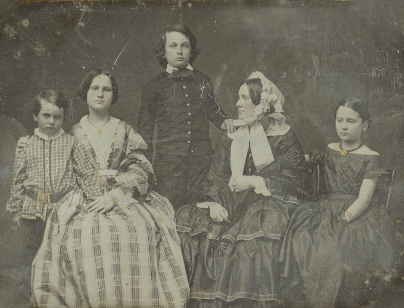 Clara Jones Crittenden with her children, ca. 1855. At left, James stands with his hand clasped in the lap of a seated Laura, wearing a plaid dress; Churchill stands between Laura and his mother, with his hand on his mother's shoulder; Clara Crittenden sits looking to the left, wearing an ornate bonnet with large bow; Ann sits next to her mother at right, wearing a black dress and ribbon necklace. The University of Michigan Library